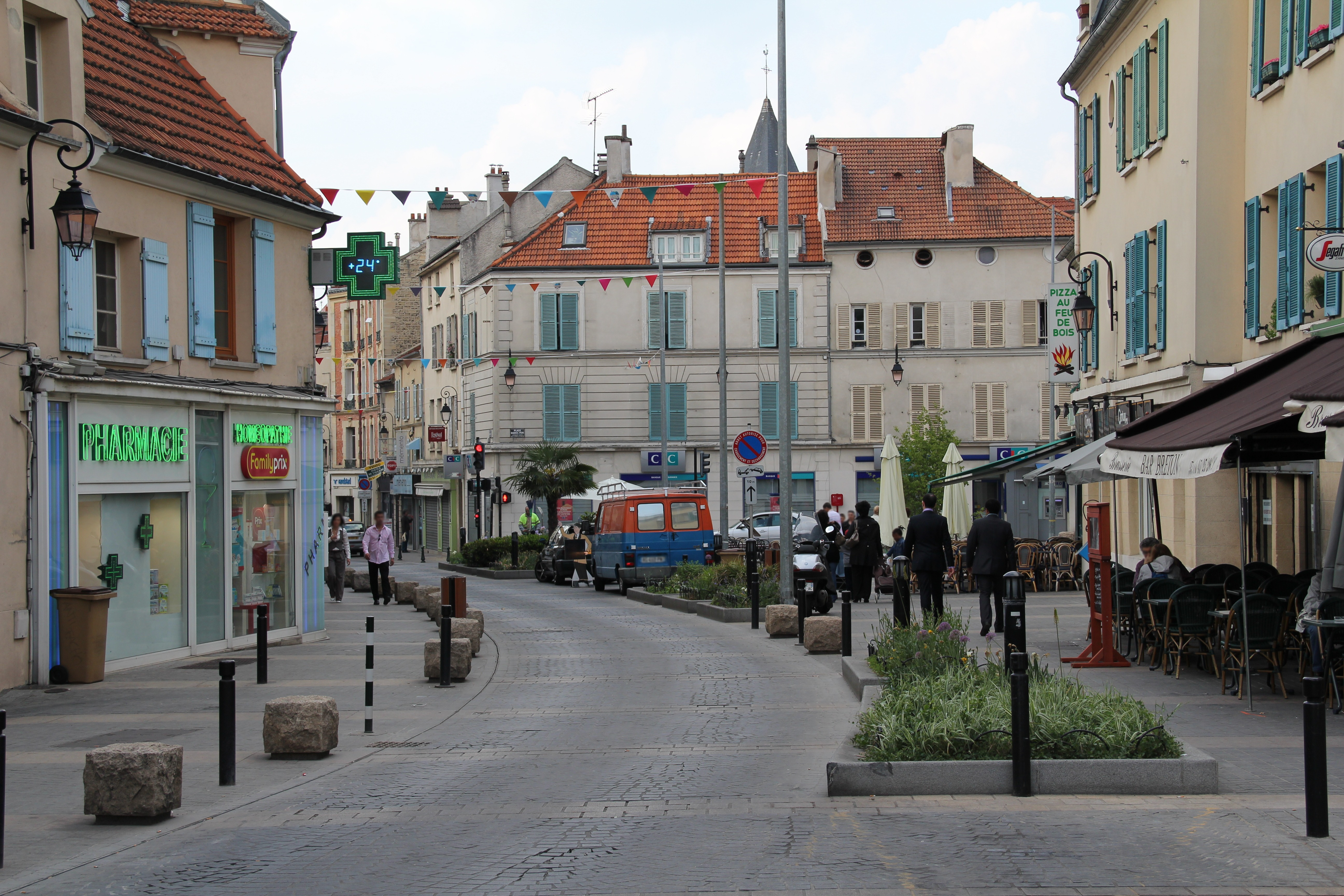 Gabriel Péri Square, in Nanterre, Hauts-de-Seine, France.